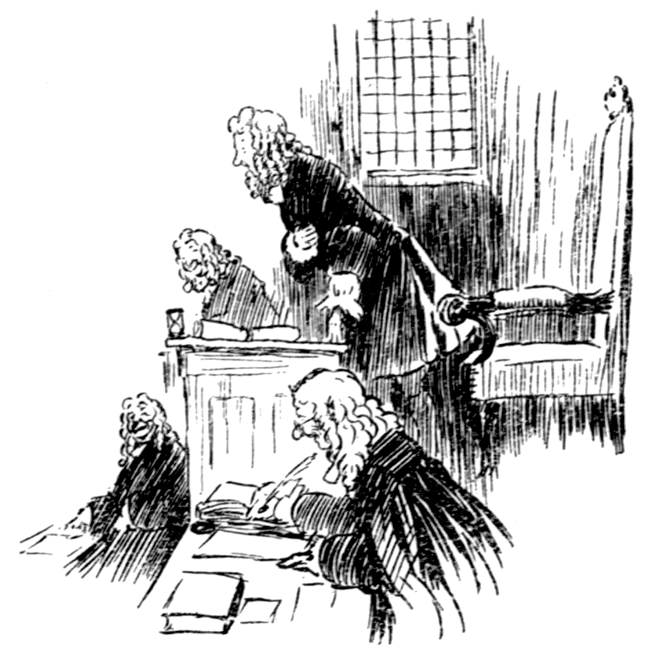 Insert from an illustrated reprint of two works: The Perverse Widow by Sir Richard Steele / The Widow by Washington Irving (1909) New York : E. P. Dutton